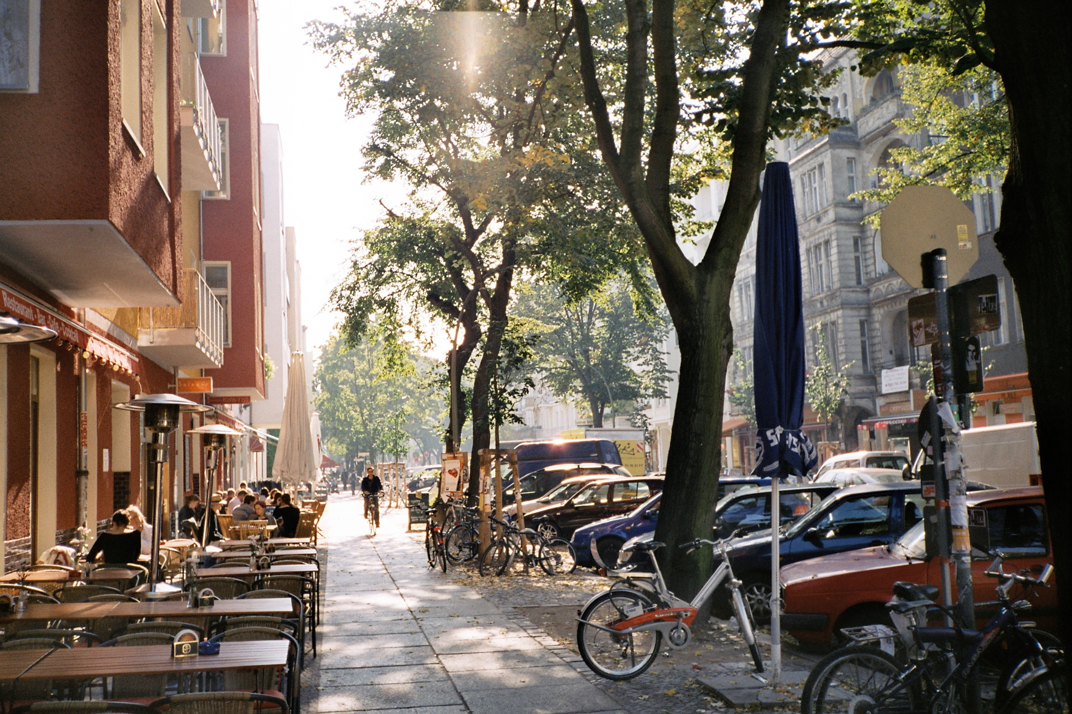 View into Simon-Dach-Straße on a summer, in Berlin-Friedrichshain.